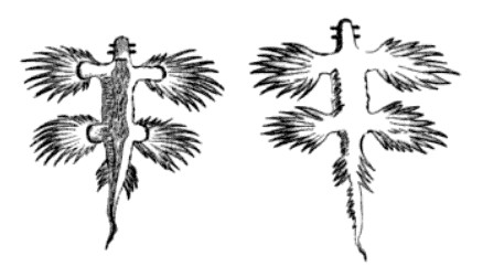 Glaucus atlanticus